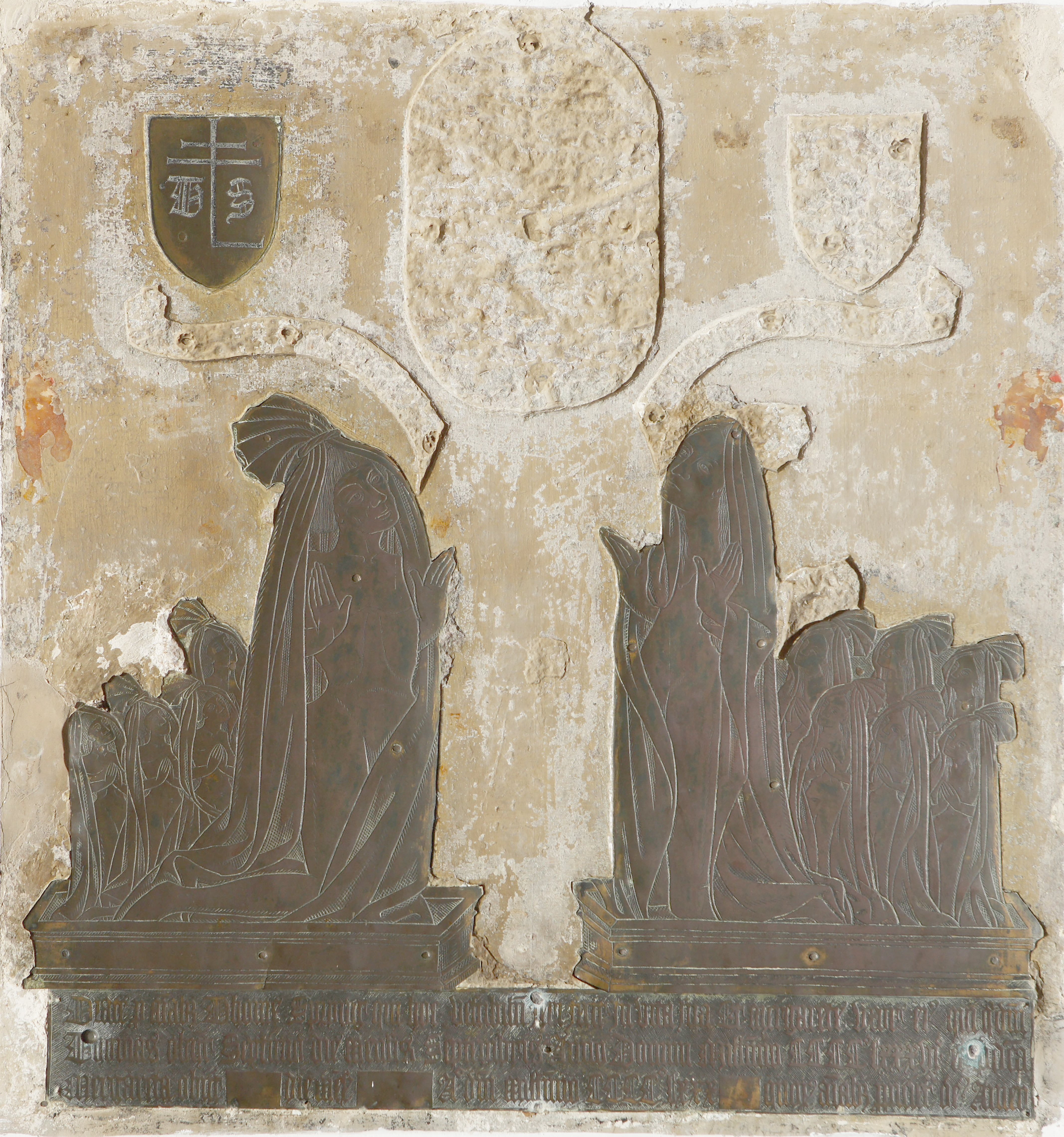 Monumental brass effigy of Thomas Spring (died 7 Sept 1486) and his wife Margaret in Lavenham Church, Suffolk. Four sons on left (Thomas, William, James, John), six(?seven/one missing in top left) daughters on right (Cecily,Marian, others unknown). They are shown rising up from their coffins still wrapped in their burial shrouds. His merchant mark is shown at top left. For Latin text see Visitation of Suffolk, 1561, 1866 edition, Vol.1, p.167[1]: Orate pro animabus Thomae Spring qui hoc vestibulum fieri fecit in vita sua et Margaretae uxoris eius qui quidem Thomas obiit septimo die mensis septembris anno domini millensimo CCCCLXXXVIo et predictae Margareta obiit anno domini millensimo CCCCLXXX quorum animabus propitietur deus amen. ("Pray ye all for the souls of Thomas Spring who in his lifetime caused this little hall (i.e. vestry) to come into existence and of Margaret his wife; which Thomas died on the seventh day of the month of september in the year of our lord the one thousanth four hundredth and eighty-sixth and the foresaid Margaret died in the year of our lord the one thousanth four hundredth and eightieth on the souls of whom may god look on with favour amen").